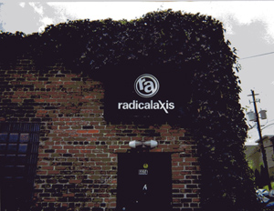 exterior snapshot of Radical Axis office